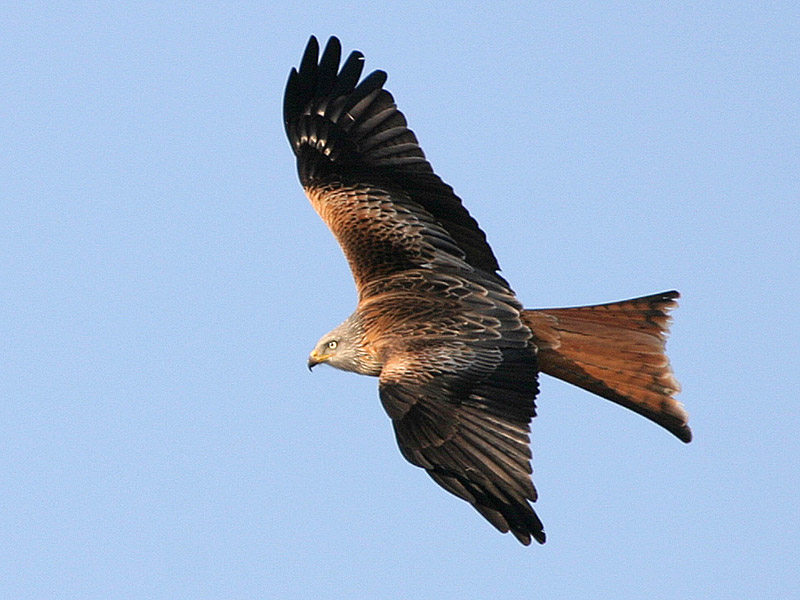 Image shows a Red Kite (Milvus milvus).